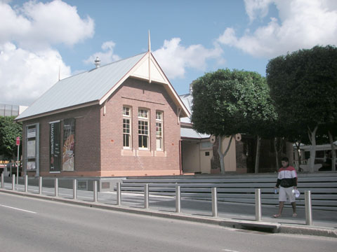 Tourist Centre in Blacktown, NSW. Building was originally the local school.